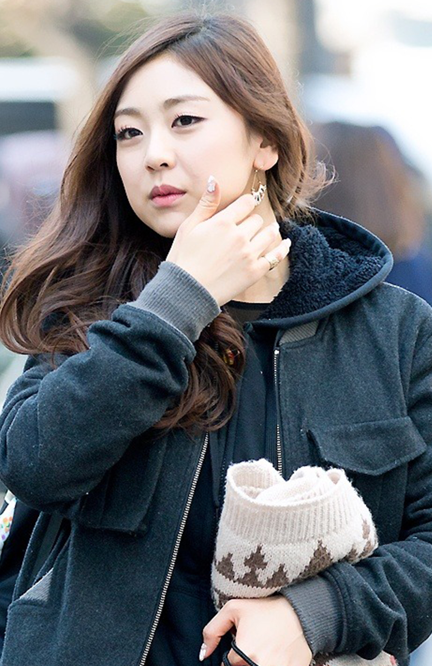 Kwon Ri-se going to a Music Bank recording on March 7, 2014.